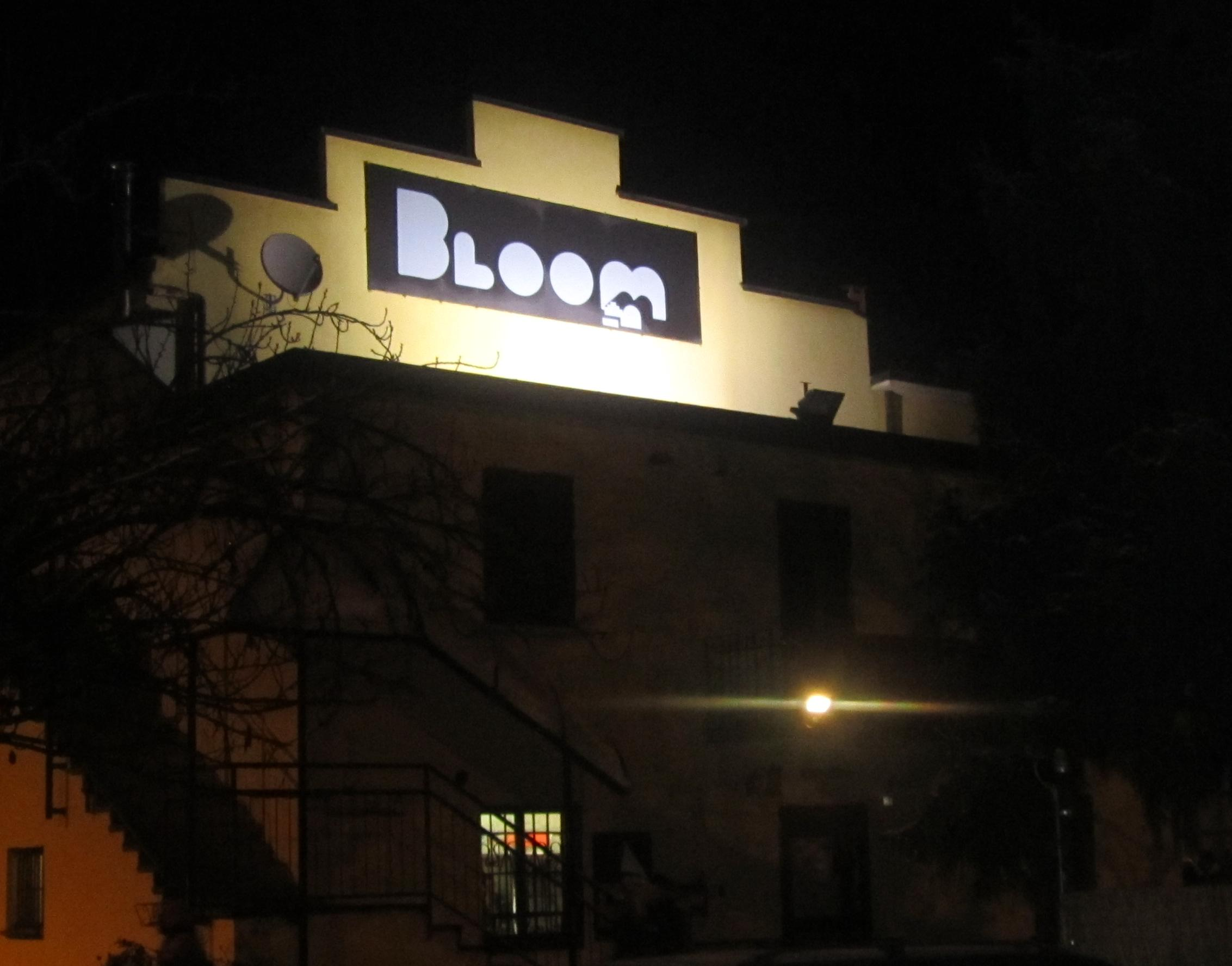 The music club "Bloom" at Mezzago, Italy, outdoor view